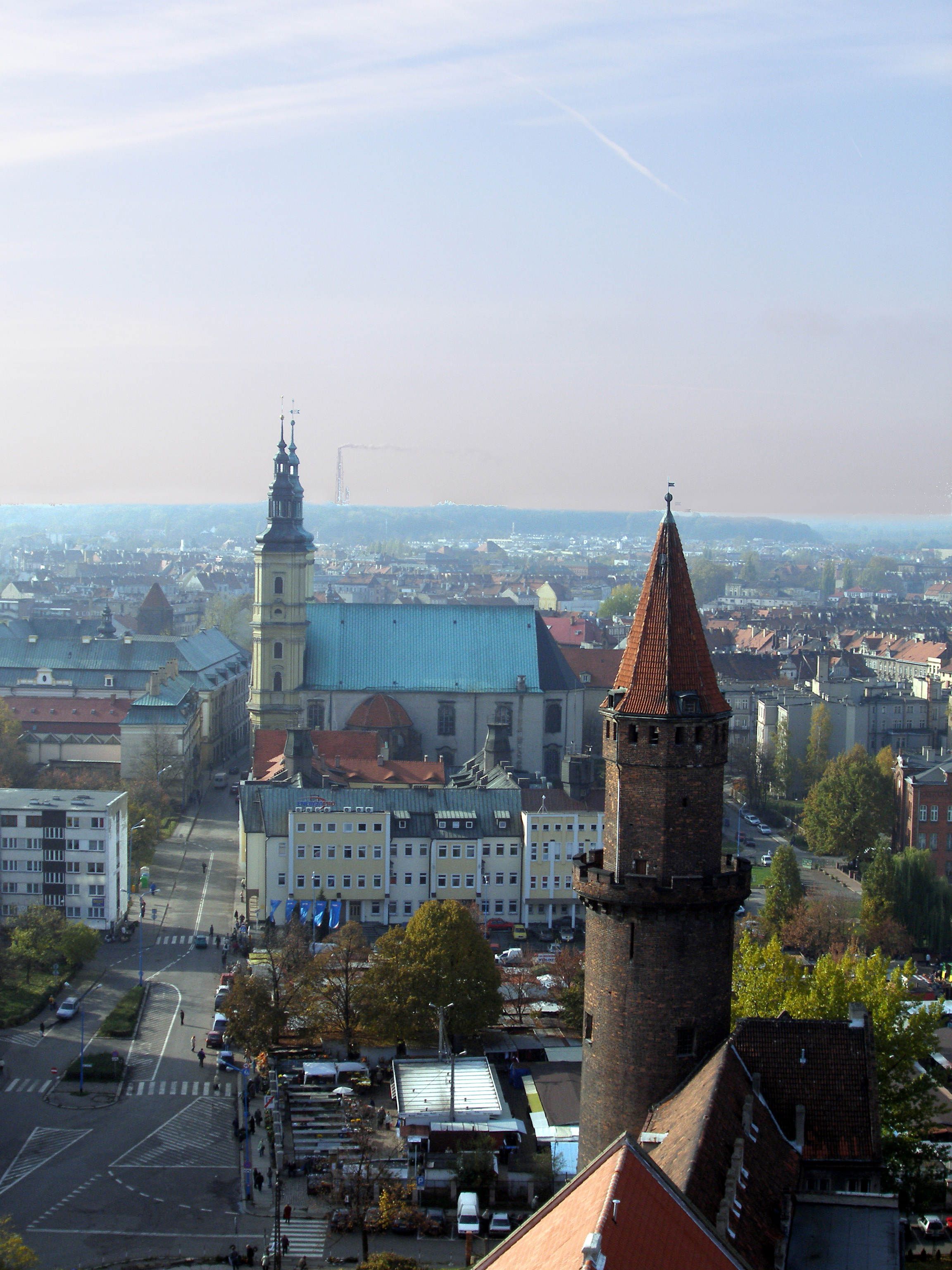 View from the St. Peter's Tower to the St. John's Church in Legnica